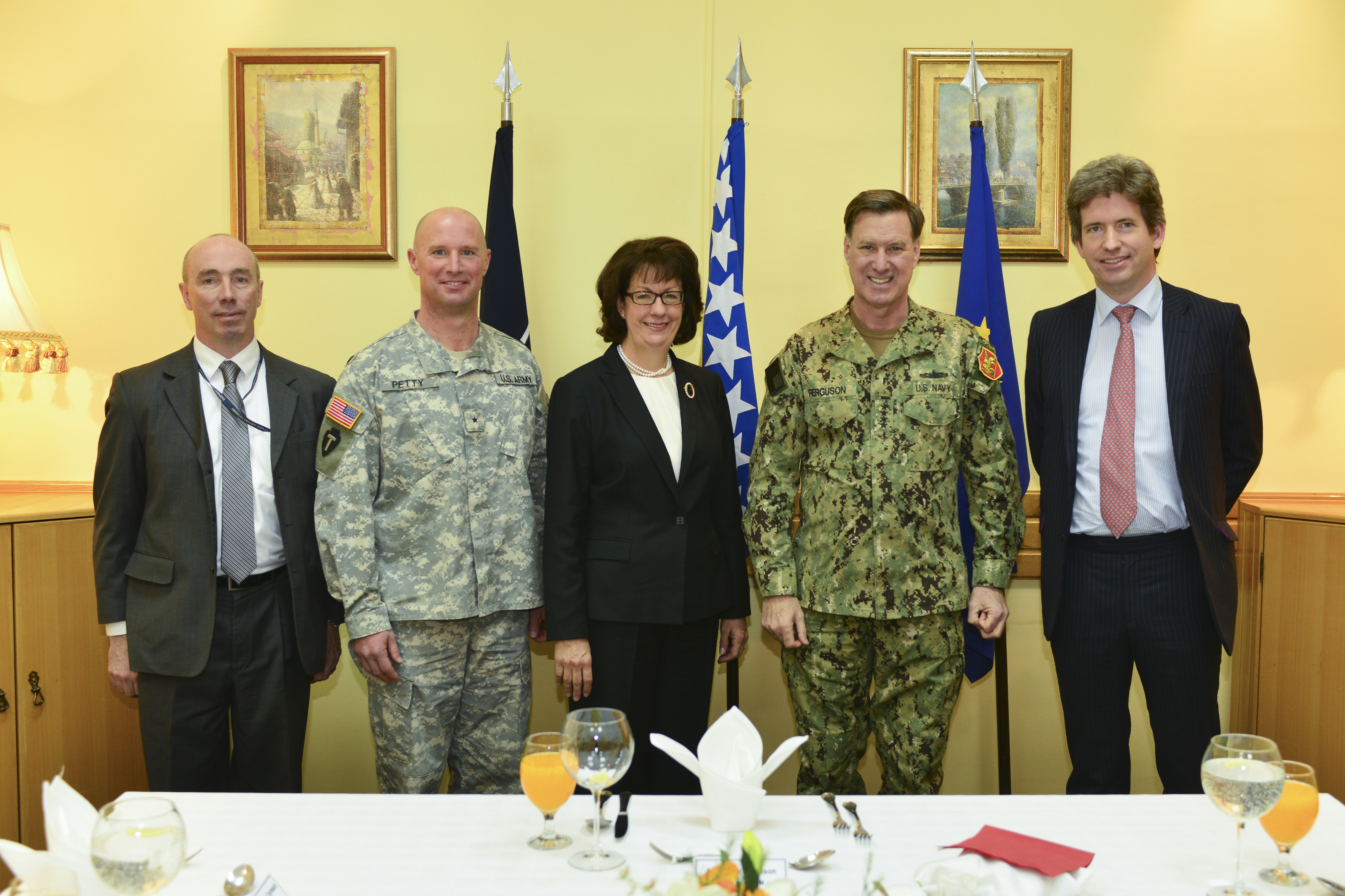 From left, U.S. Army Col. Scott Miller, defense attaché for the U.S. Embassy in Bosnia and Herzegovina (BiH), U.S. Army Brig. Gen. Christopher J. Petty, NATO Headquarters Sarajevo commander, Maureen Cormack, ambassador of the U.S. Embassy in BiH, U.S. Navy Adm. Mark Ferguson, Allied Joint Force Command Naples commander, and Edward Ferguson, ambassador of the Embassy of the United Kingdom of Great Britain and Northern Ireland in BiH, pose for a photo during a visit to NATO Headquarters Sarajevo, Bosnia and Herzegovina, Feb. 20, 2015. Ferguson, who directs a combined NATO staff responsible for planning, preparing and conducting military operations through the Supreme Allied Commander Europe’s area of responsibility, visited NATO HQ Sarajevo to discuss continued support to provide defense reform assistance to Bosnia and Herzegovina. (U.S. Air Force photo by Staff Sgt. Katie Gar Ward/Released)(Image was cropped and color corrected to enhance subject)